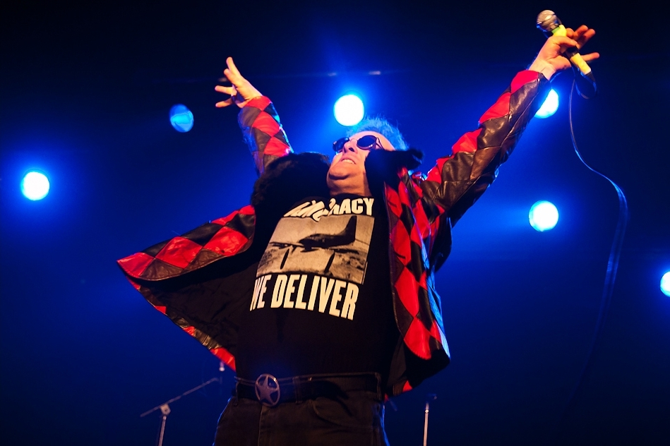 Jello Biafra and the Guantanamo School of Medicine. Club Astra, Berlin.